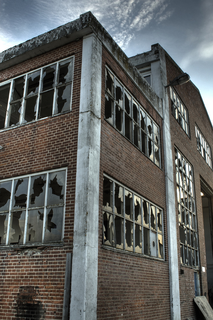 Example of a tone-mapped HDR photo.